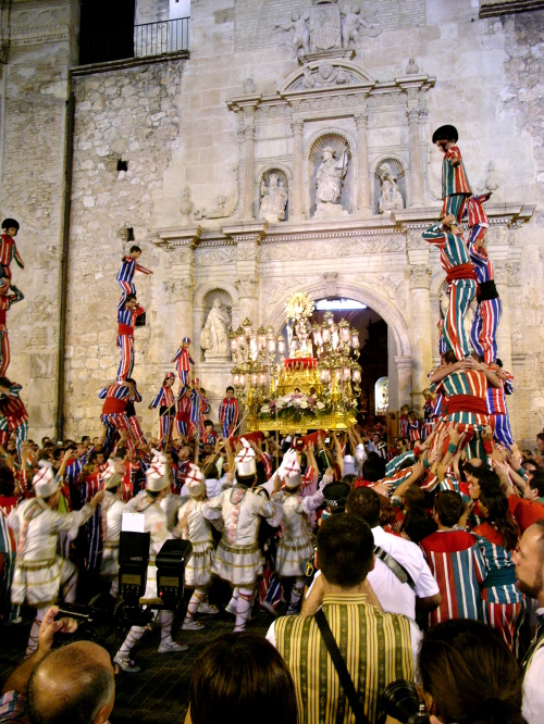 Algemesí's Virgin of Salut procession finale, complete with muixerangues, tornejants, policemen & photographers